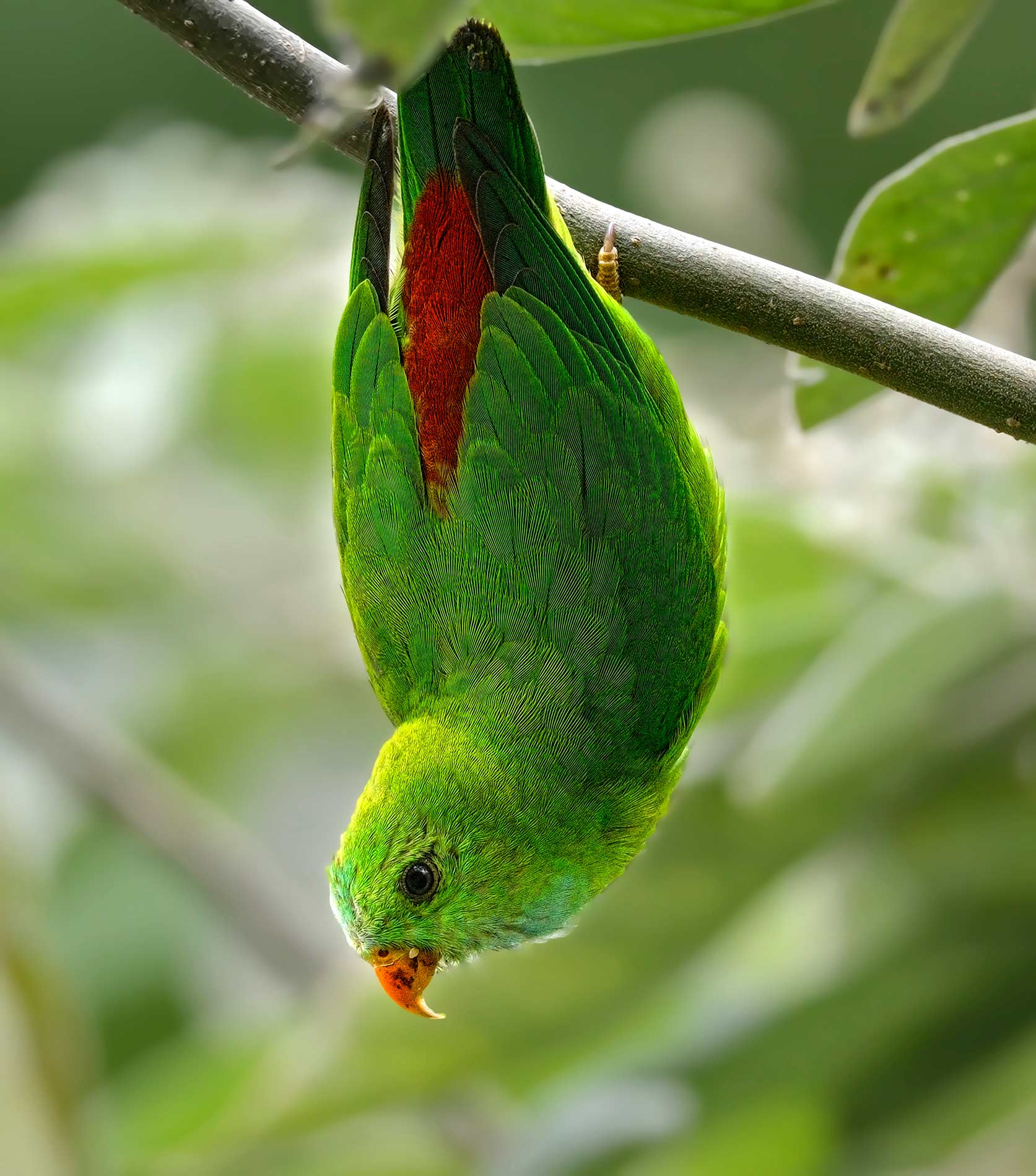 1/1000s, f/5.6, ISO 400 Mode: M, Meter: Matrix, No Flash, Auto WB Focal: 420mm, NIKON D7000 , 300mm f/4